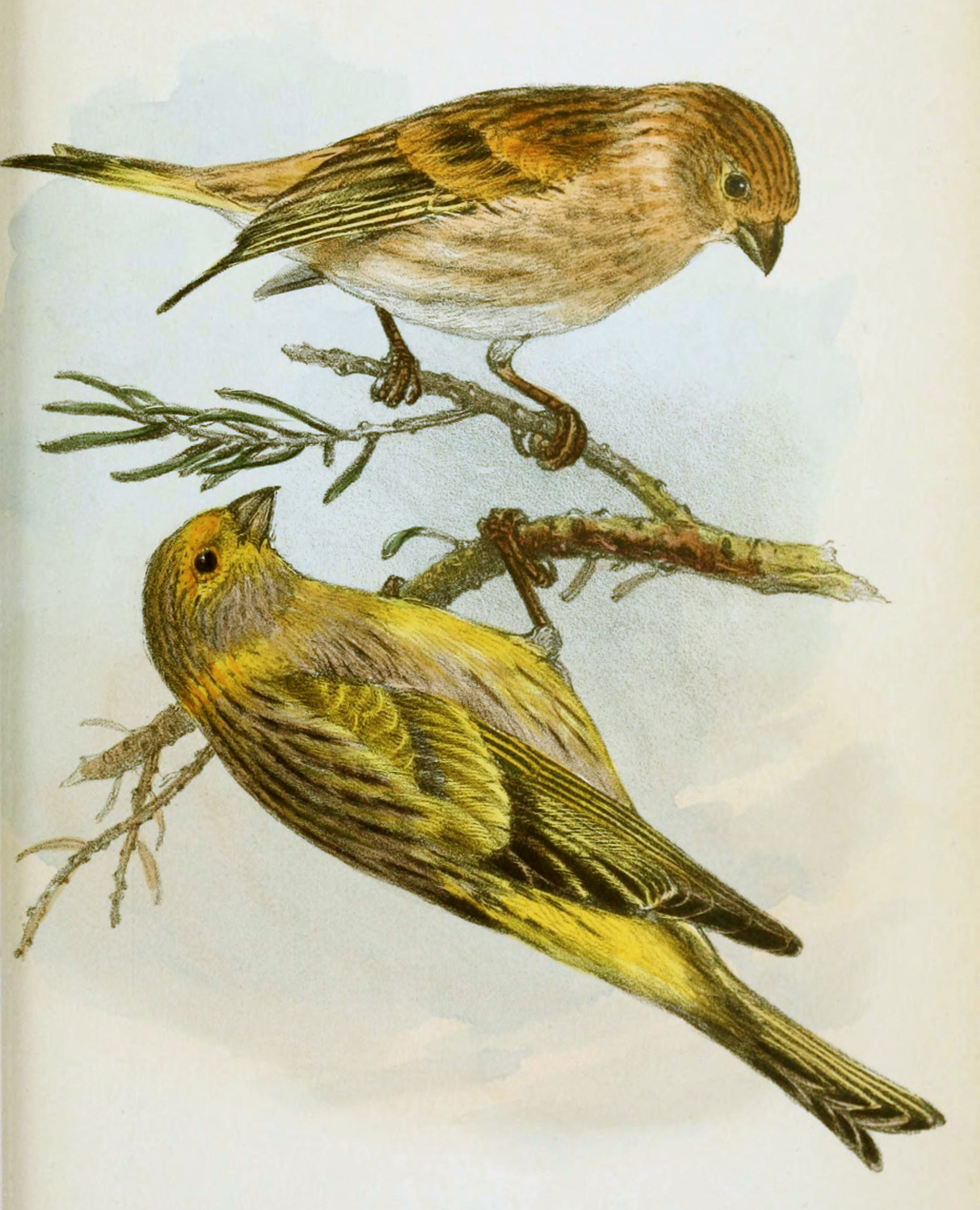 « Serinus aurifrons » = Serinus syriacus (Syrian Serin)